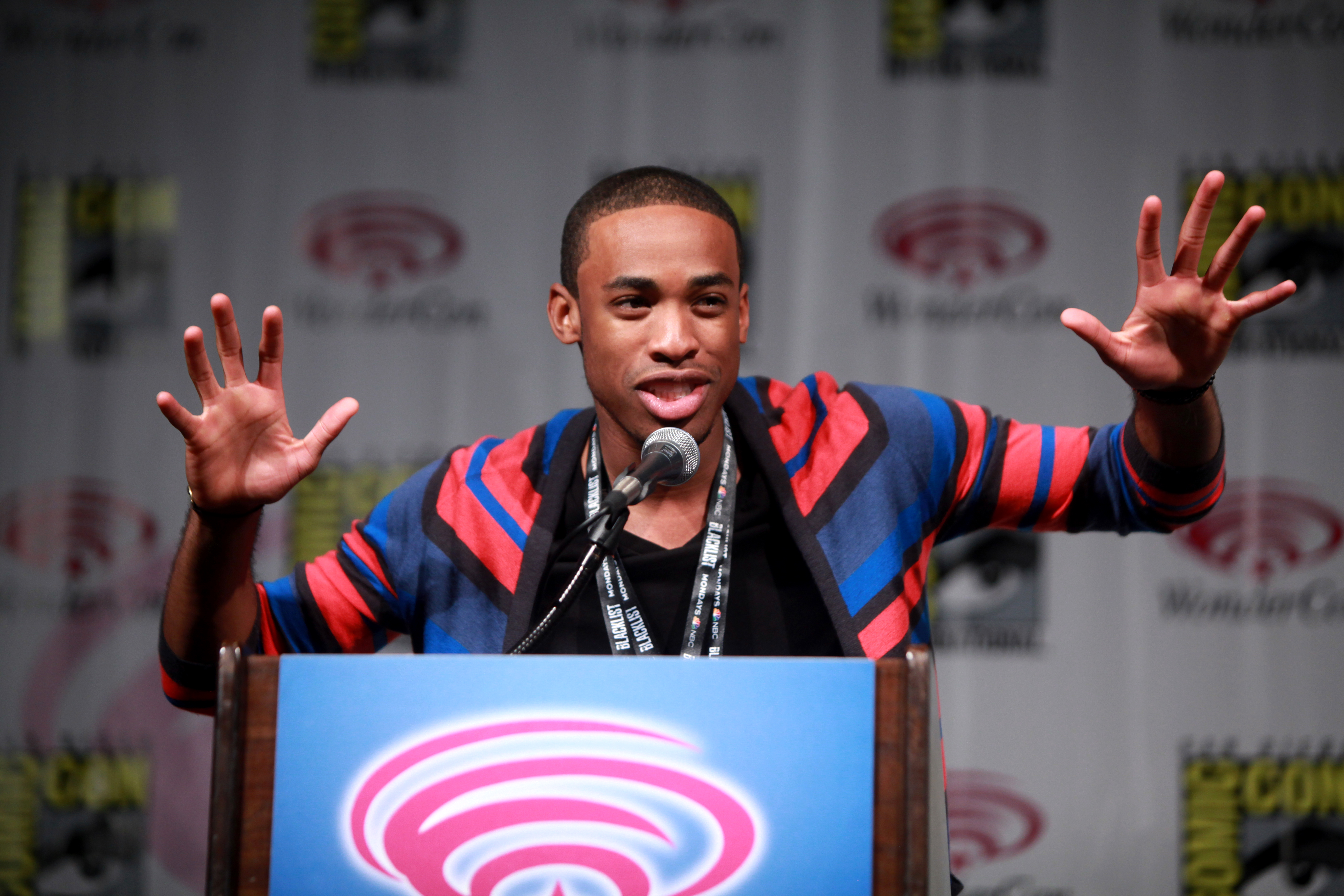 Titus Makin, Jr. speaking at the 2014 WonderCon, for Star-Crossed, at the Anaheim Convention Center in Anaheim, California.